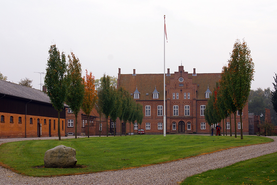 Knabstrup Hovedgaard, agricultural mansion west of Holbæk, Denmark